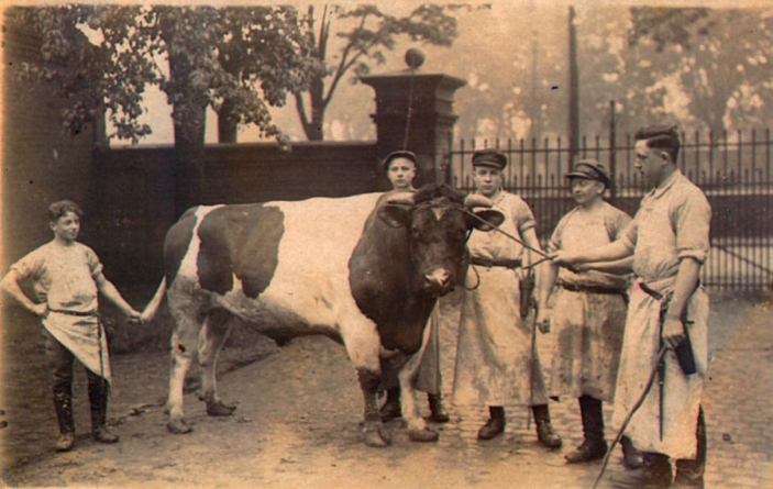 Picture with butchers an a cow in Soest, Germany (aprox. 1900)